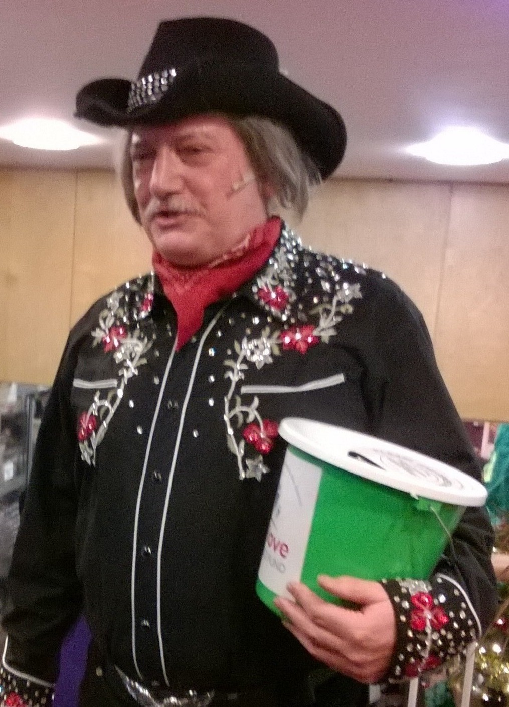 Actor Graham Cole in costume after appearing in a pantomime in Lichfield in 2015. Photo taken by myself on 22 December of that year.